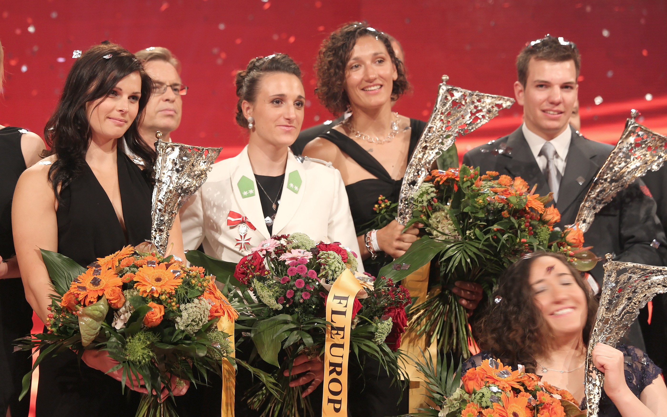 Anna Veith, Lara Vadlau, Jolanta Ogar and Markus Salcher - Austrian Sportspersonalities of the Year 2014 (Austria Center Vienna).